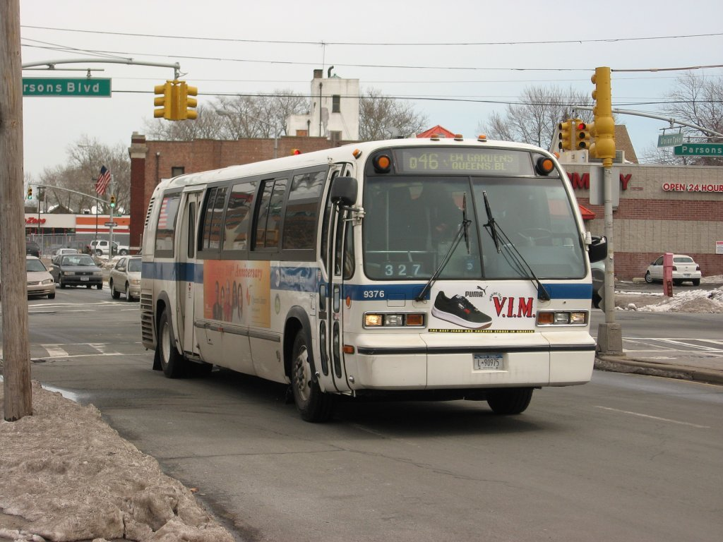 NYCTA bus 9376 in Kew Gardens Hills, New York, on the Q46 line.